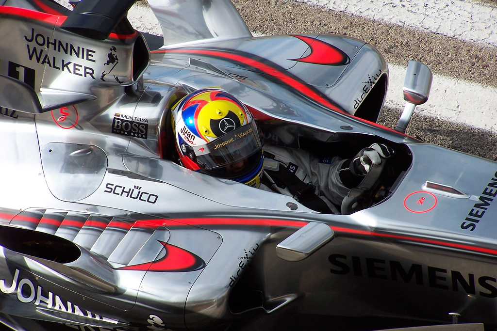 Juan Pablo Montoya testing for McLaren at the Valencia circuit in February 2006.